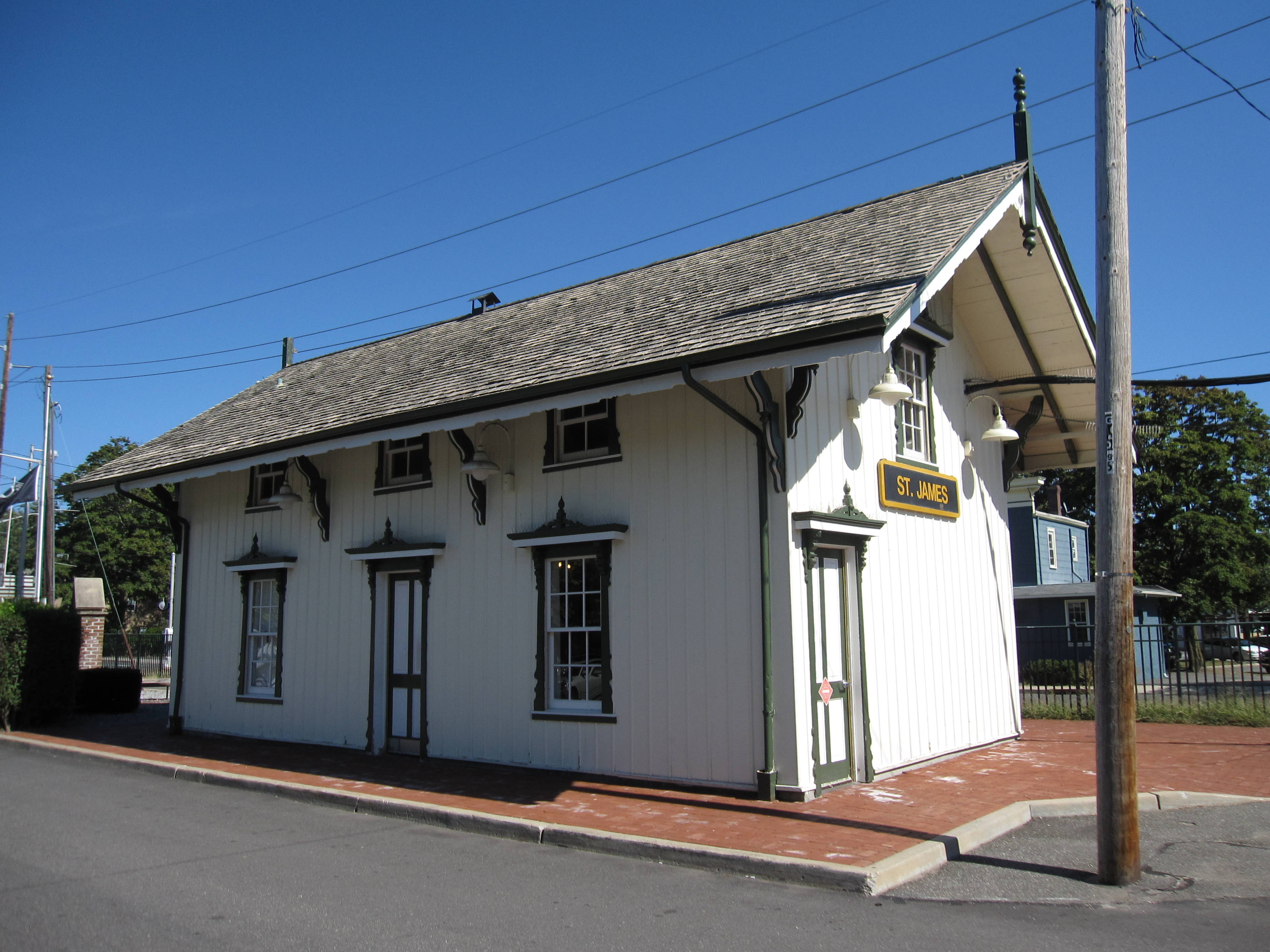 Trainstation of St. James, New York